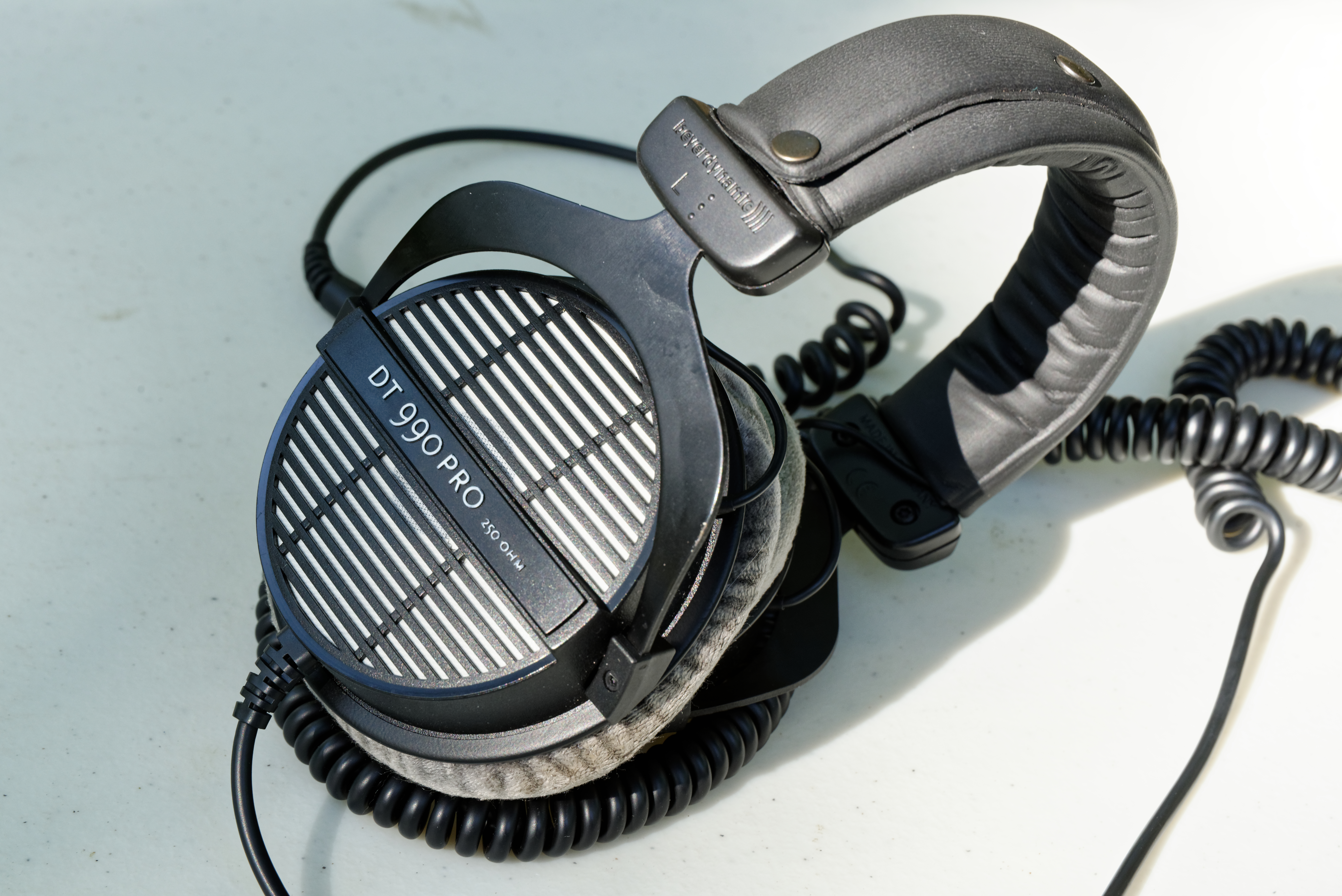 Beyerdynamic DT990 PRO headphones